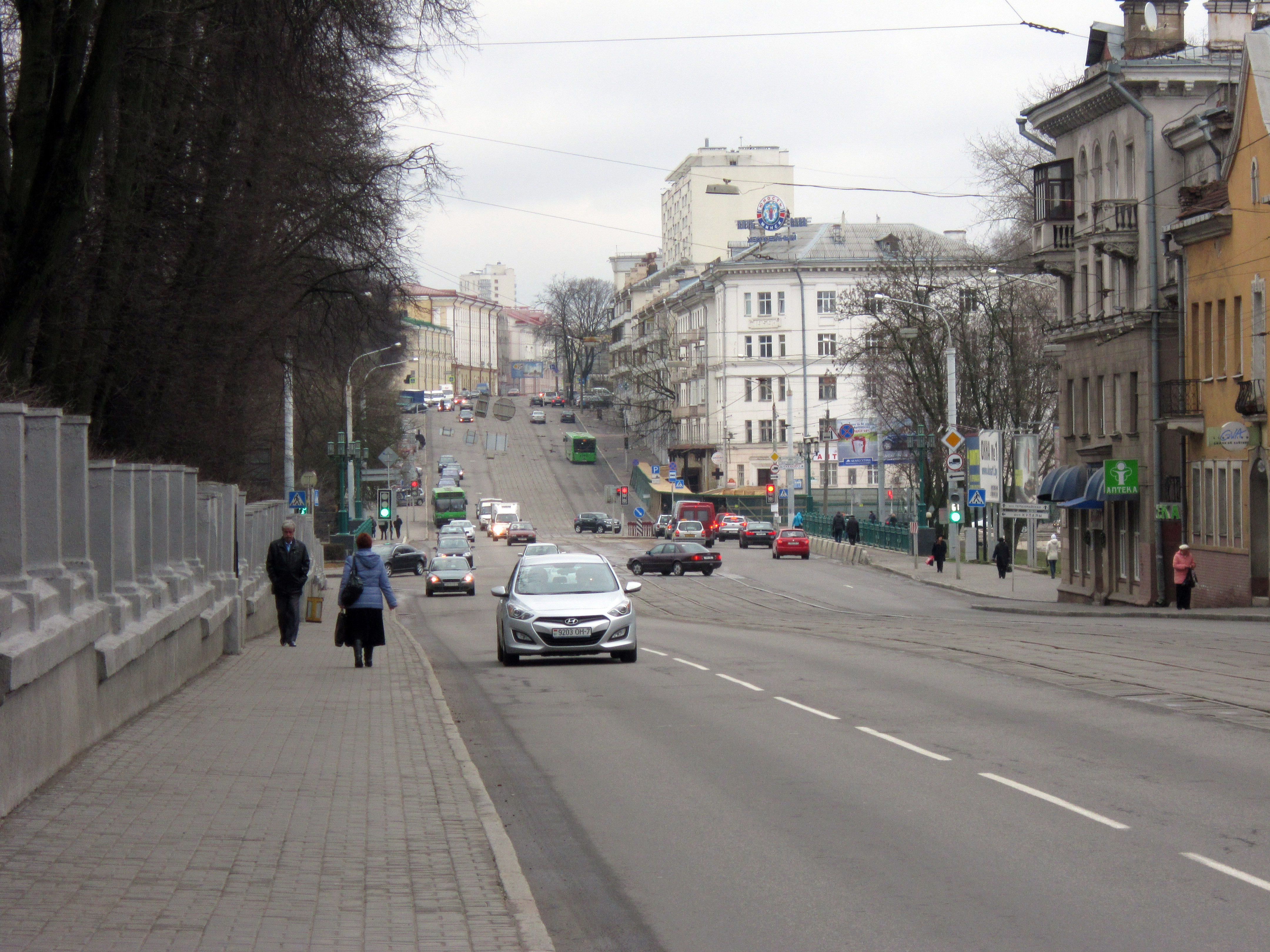 Pieršamajskaja street, Minsk, Belarus